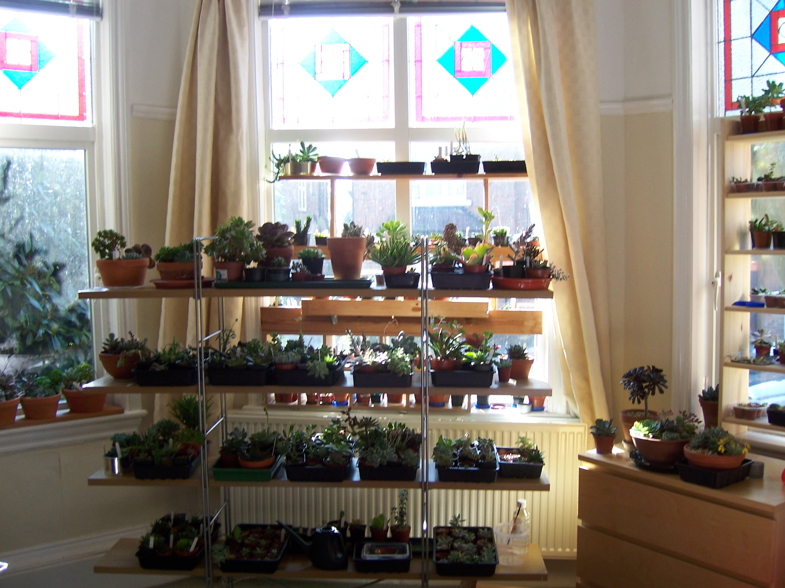 Two levels deep. Several hundred plants. Probably around 600-700 is my guess.